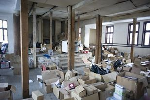 Gotse Delchev Synagogue